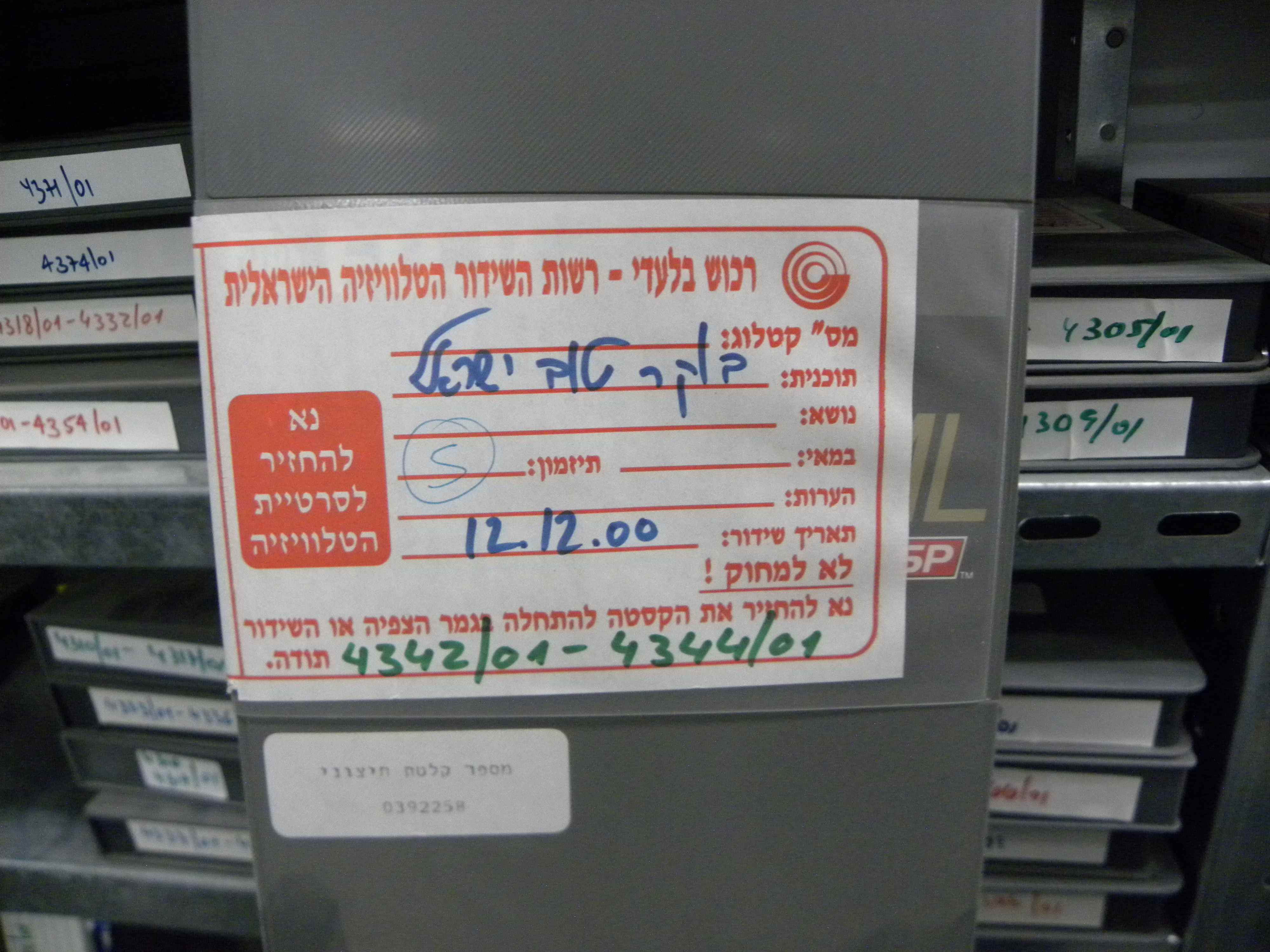 Israel Broadcasting Authority's archive of television recordings